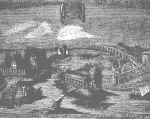 View of a Roman Harbor